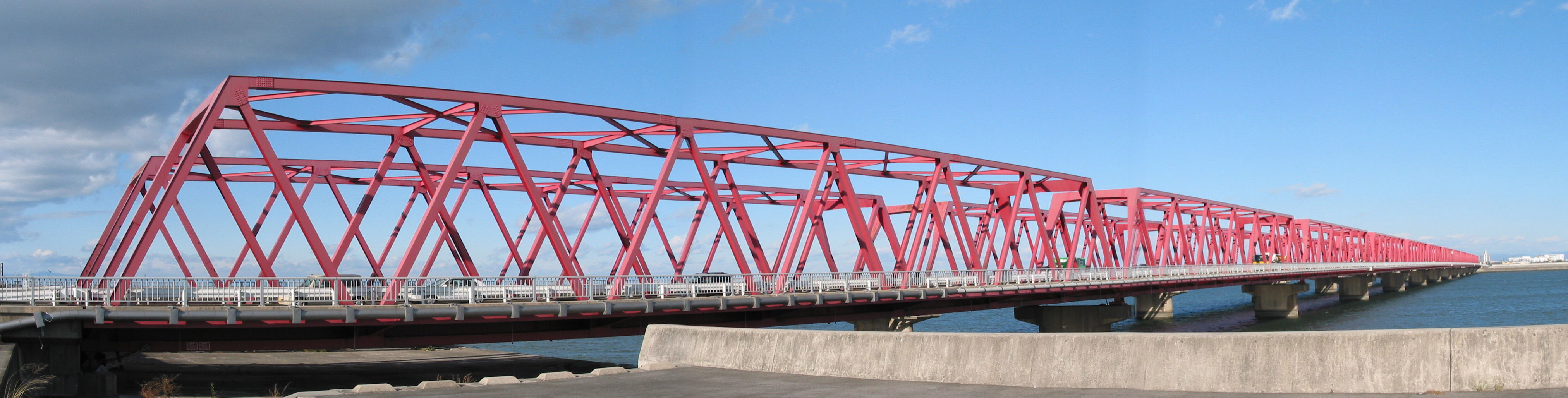 Kisogawa-ohashi (bridges across the Kiso-river) of Route 23 (Japan) 国道23号線木曽川大橋